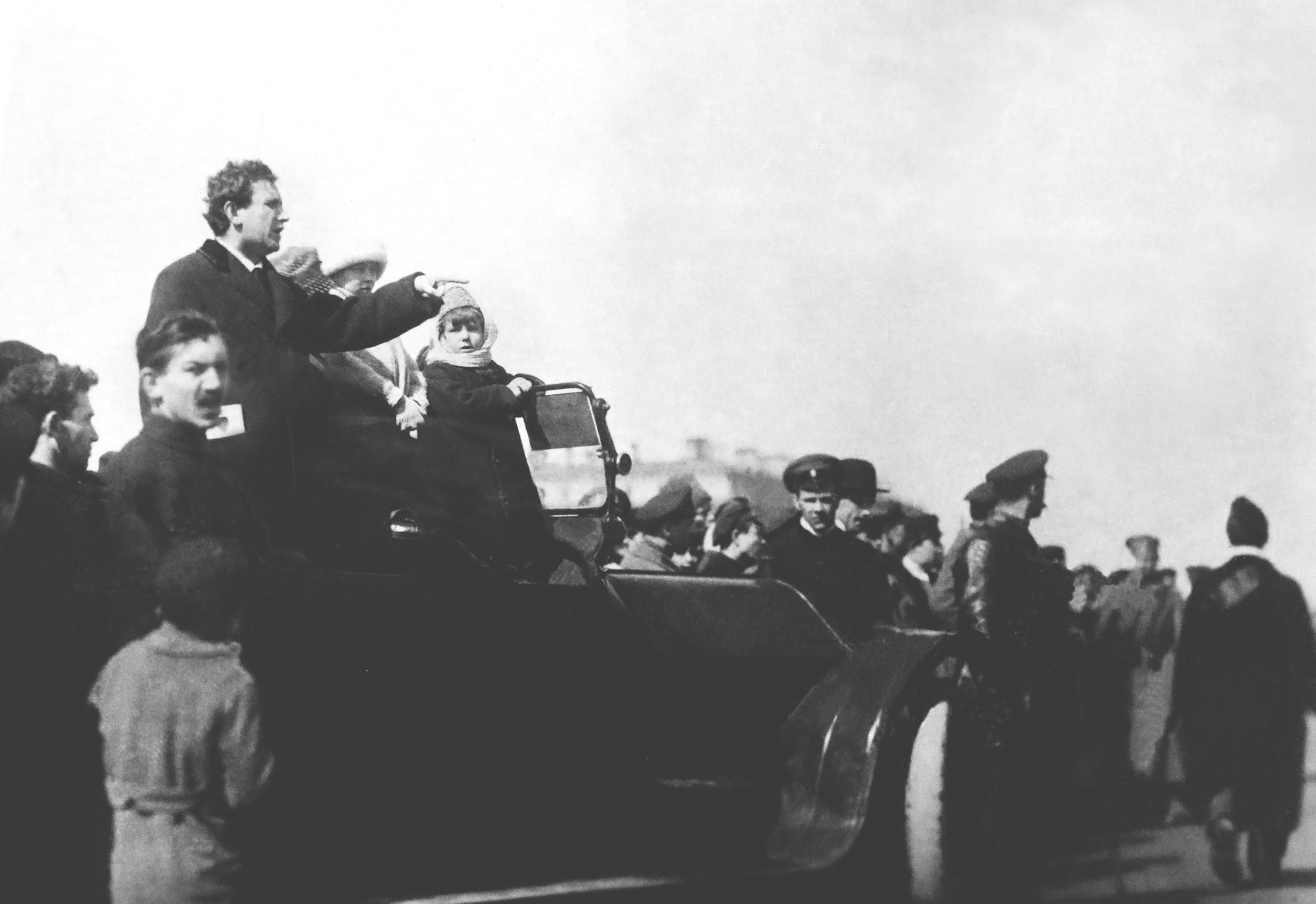 Grigory Zinoviev, Chairman of The Petrograd Soviet addresses the crowd on the first International Workers' Day after the October Uprising (the Bolshevik Revolution). Date: May 1 1918. Place: Fields of Mars, Petrograd. Context: Zinoviev was one of the seven leaders of the first Politburo, founded in 1917 in order to manage the Uprising in 1917: Lenin, Trotsky, Zinoviev, Kamenev, Stalin, Sokolnikov, and Bubnov. He became the Chairman of the Executive Committee of the Comintern when it was created in March 1919 to spread the uprising worldwide. Grigory Zinoviev was executed in 1936, following the court case known as Trial of Sixteen. This trial started the historical period known as The Great Purge.